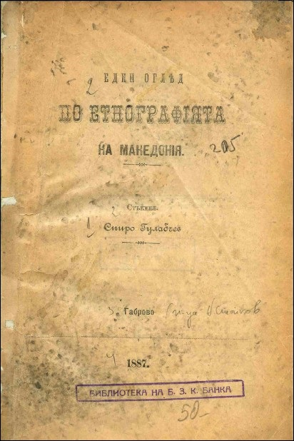 A View of the Ethnography of Macedonia